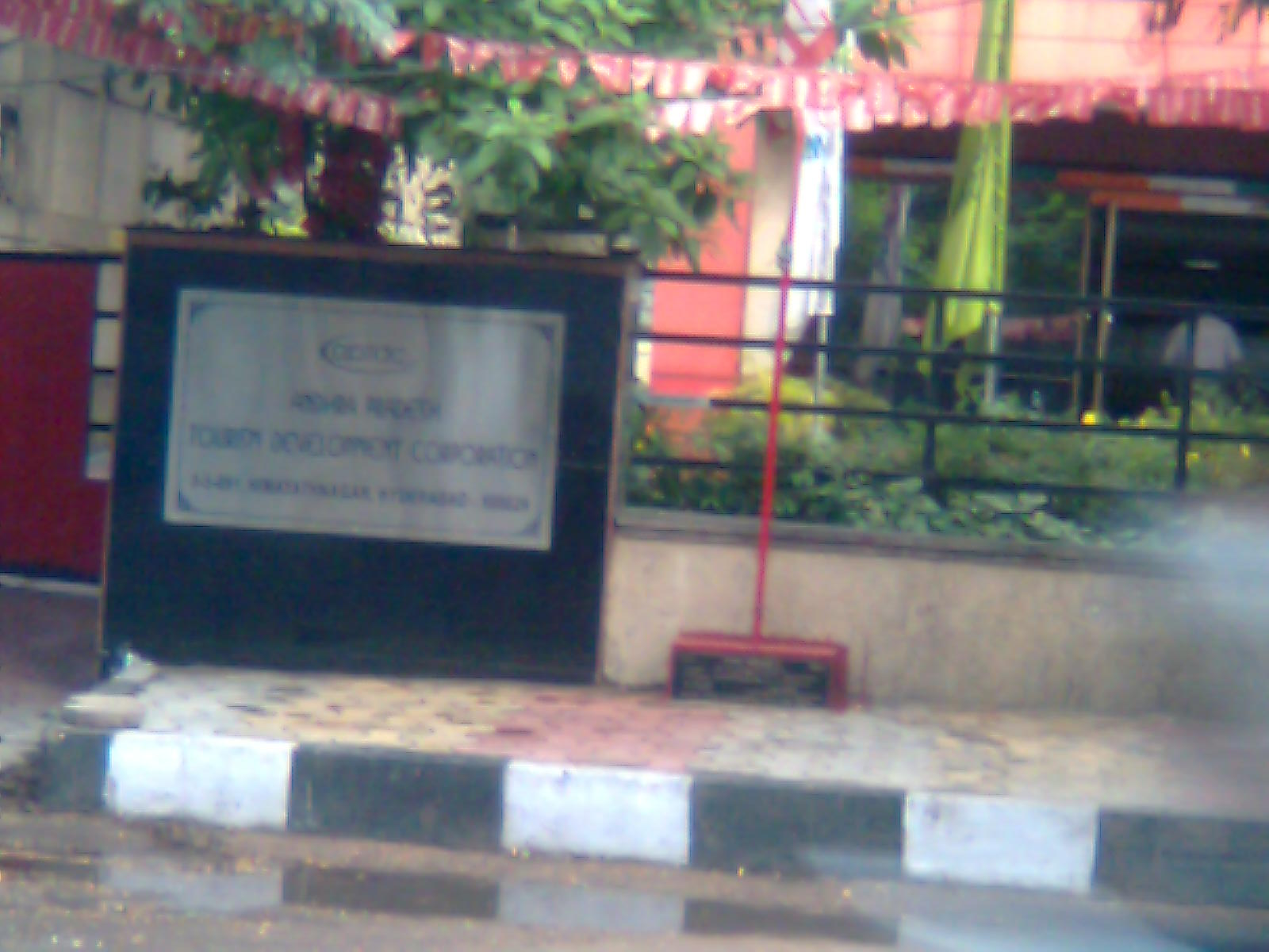 Andhra Pradesh Tourism Development Corporation, Himayatnagar, Hyderabad Office Entrance, Andhra Pradesh